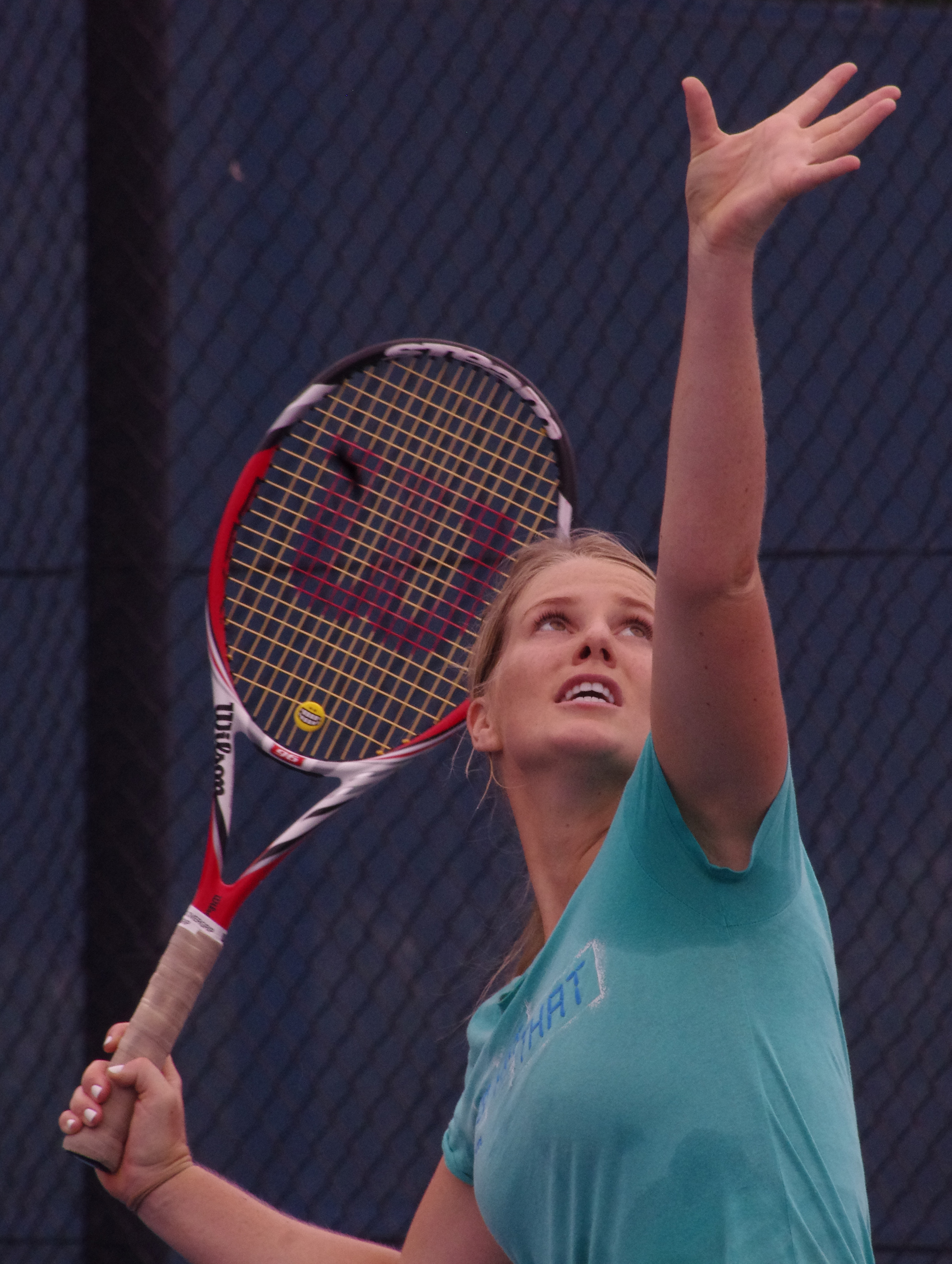 ISABELLA HOLLAND